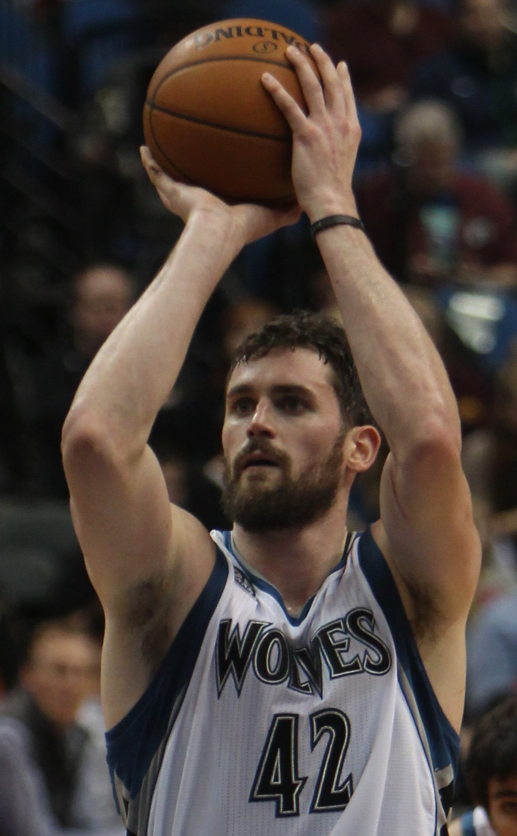 Kevin Love